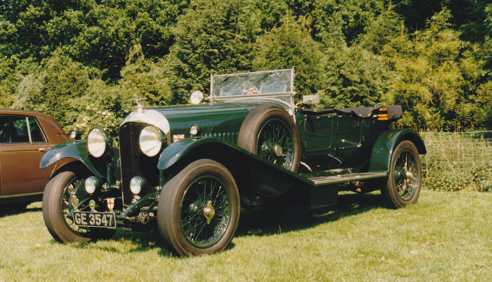 Bentley 4½-litre #HB3407delivered September 1929, Weymann saloon body by Maythorn Chassis HB3407 Engine HB3406 Reg GE 3547 Source of data—Vintage Bentleys